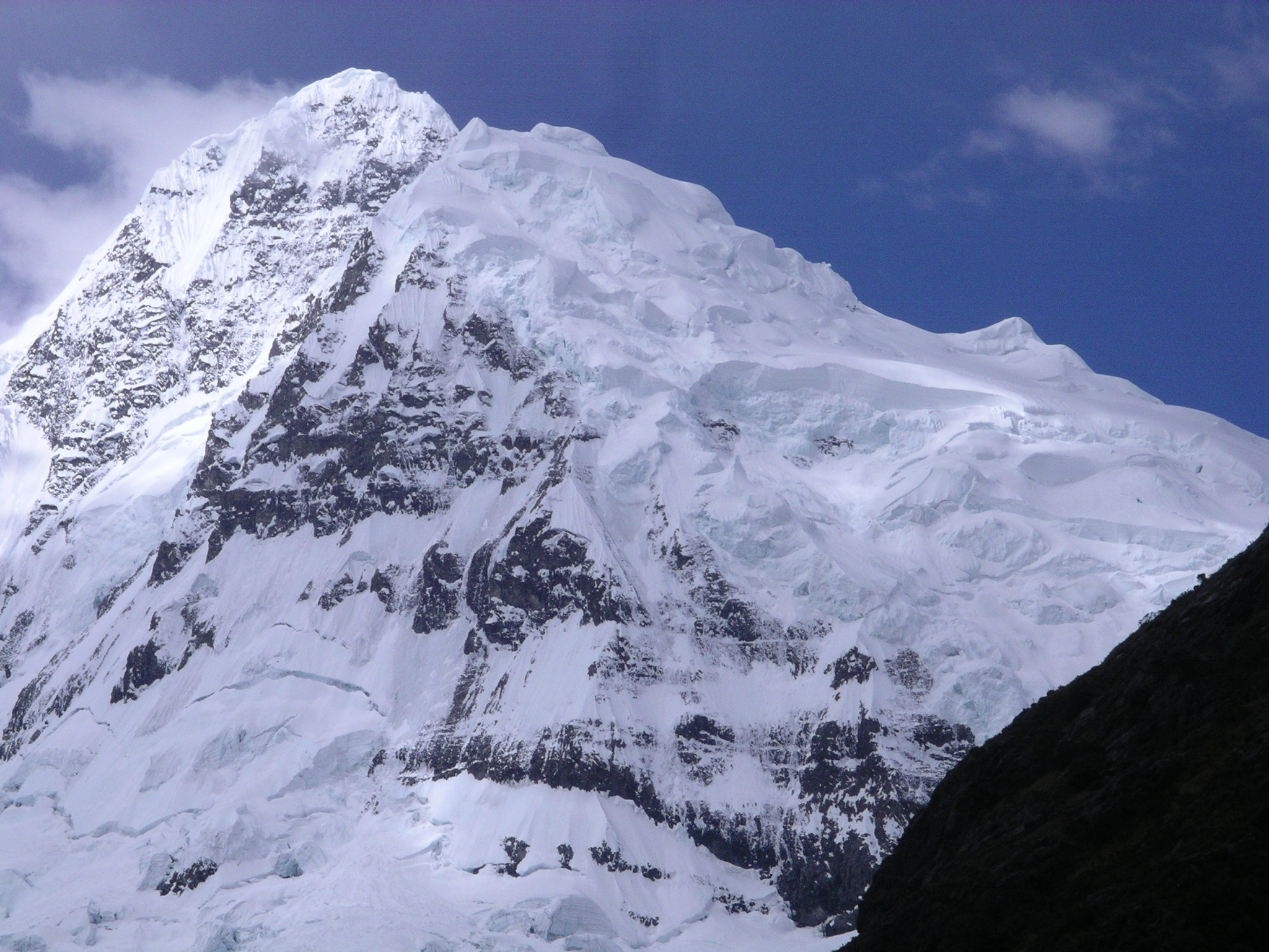 The southwestern slope of the Nevado Huantsán (6395m), Peru